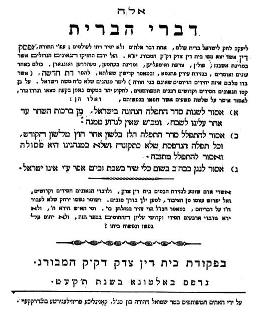 A decree of the Hamburg Rabbinical Court from 1819, forbidding prayer in the Hamburg Temple